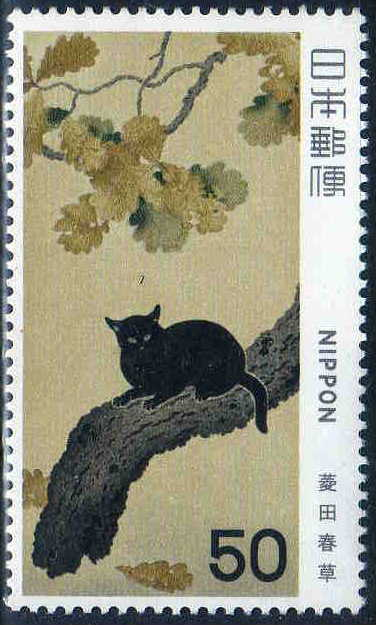 Hishida Shunsou: Black Cat